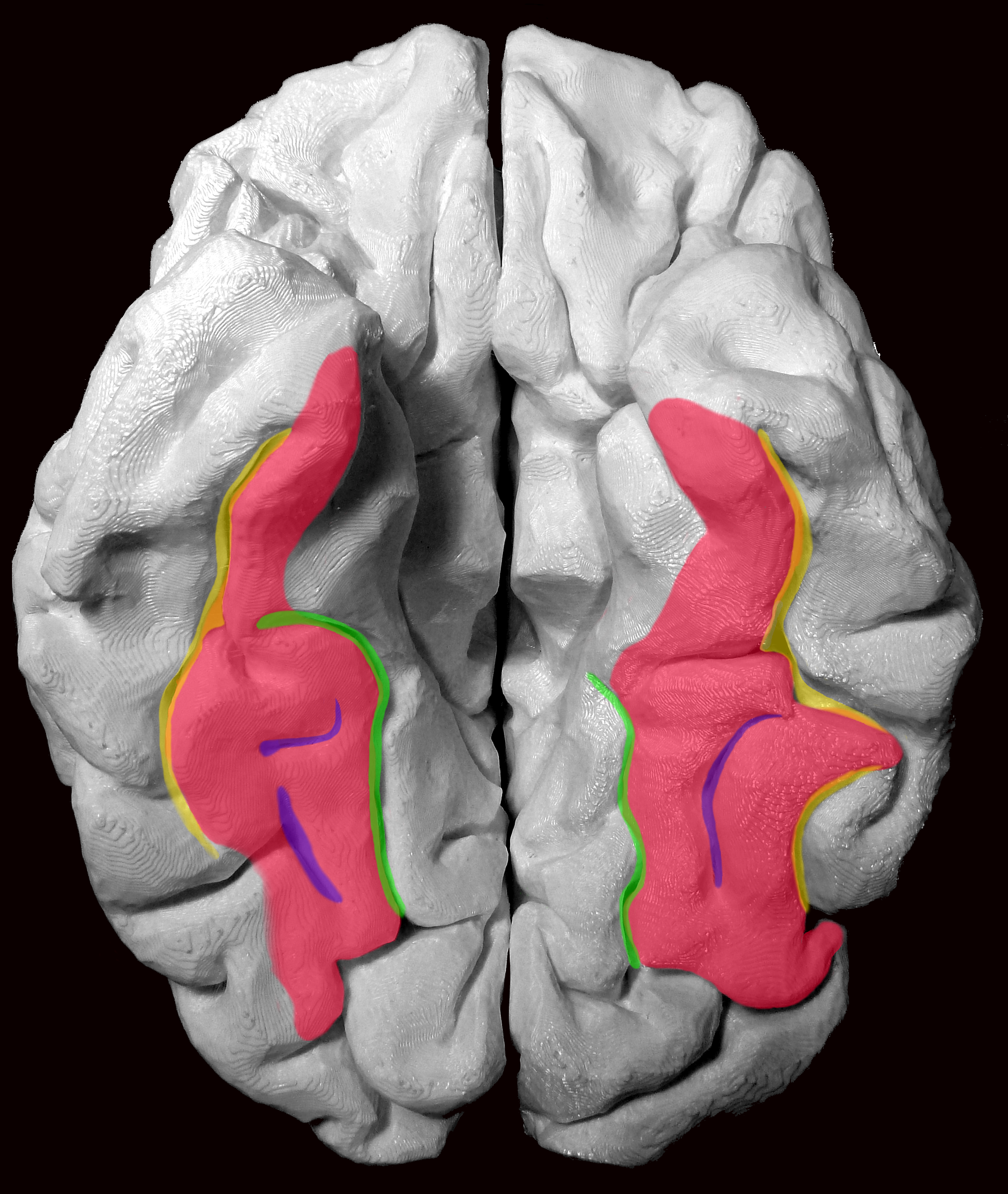 Fusiform gyrus with all major sulci delimiting it, displayed on a 3D-printed brain of a healthy adult. As we view the brain from below, the right hemisphere is on the left side of the image; red – fusiform gyrus; yellow – occipitotemporal sulcus (OTS); green – collateral sulcus (CoS); blue – mid-fusiform sulcus (MFS).